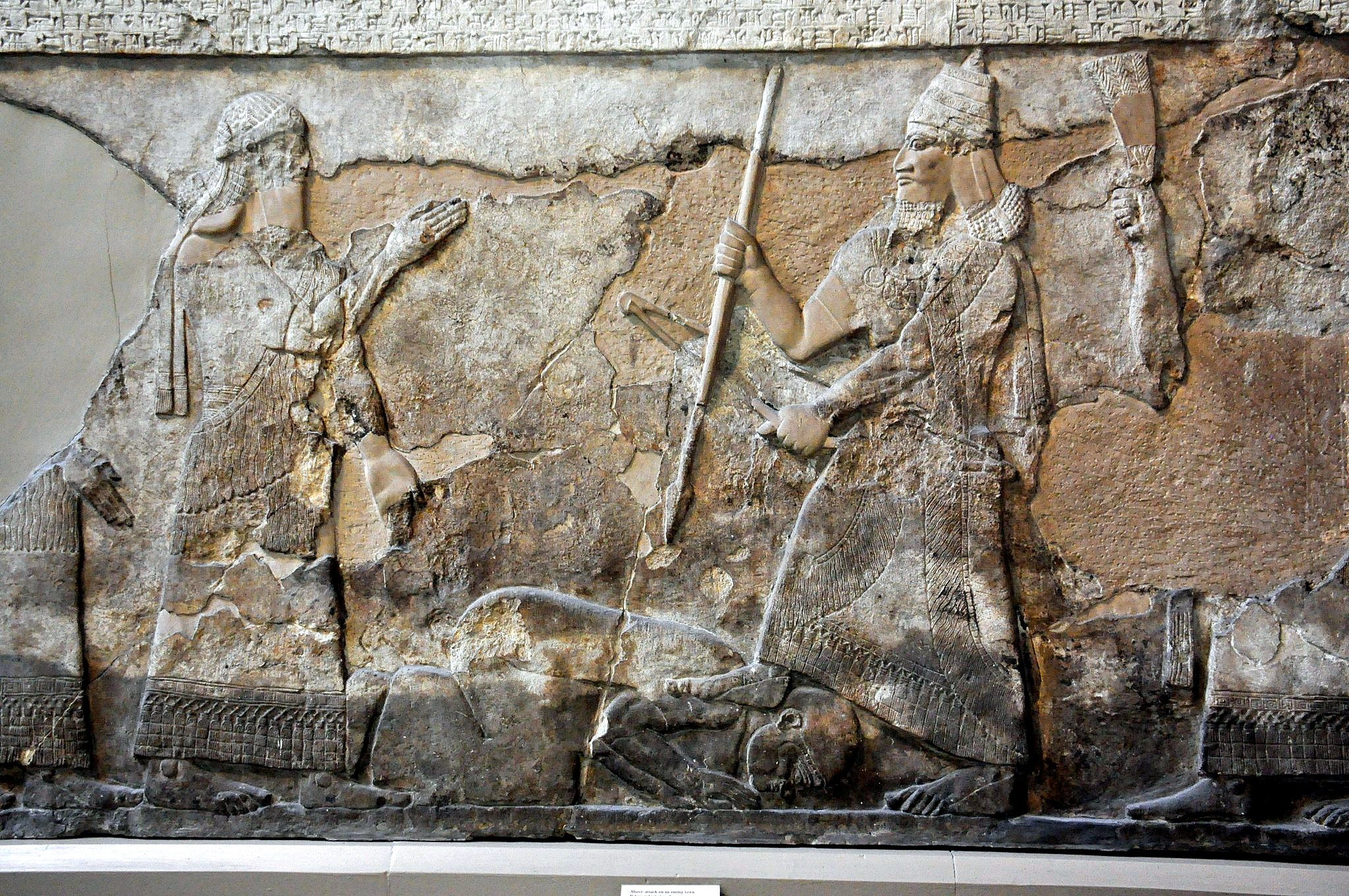 In this alabaster bas-relief, the Assyrian king Tiglath-pileser III stands over an enemy's right shoulder. The king is being greeted by a high-ranking official and both are surrounded by attendants. The cuneiform inscriptions above narrate one of the king's military campaigns in modern-day Iran. From the Central Palace (re-used in the South-West Place) at Nimrud (modern-day Ninawa Governorate, Iraq), Mesopotamia, Neo-Assyrian period, circa 728 BCE. The British Museum, London.